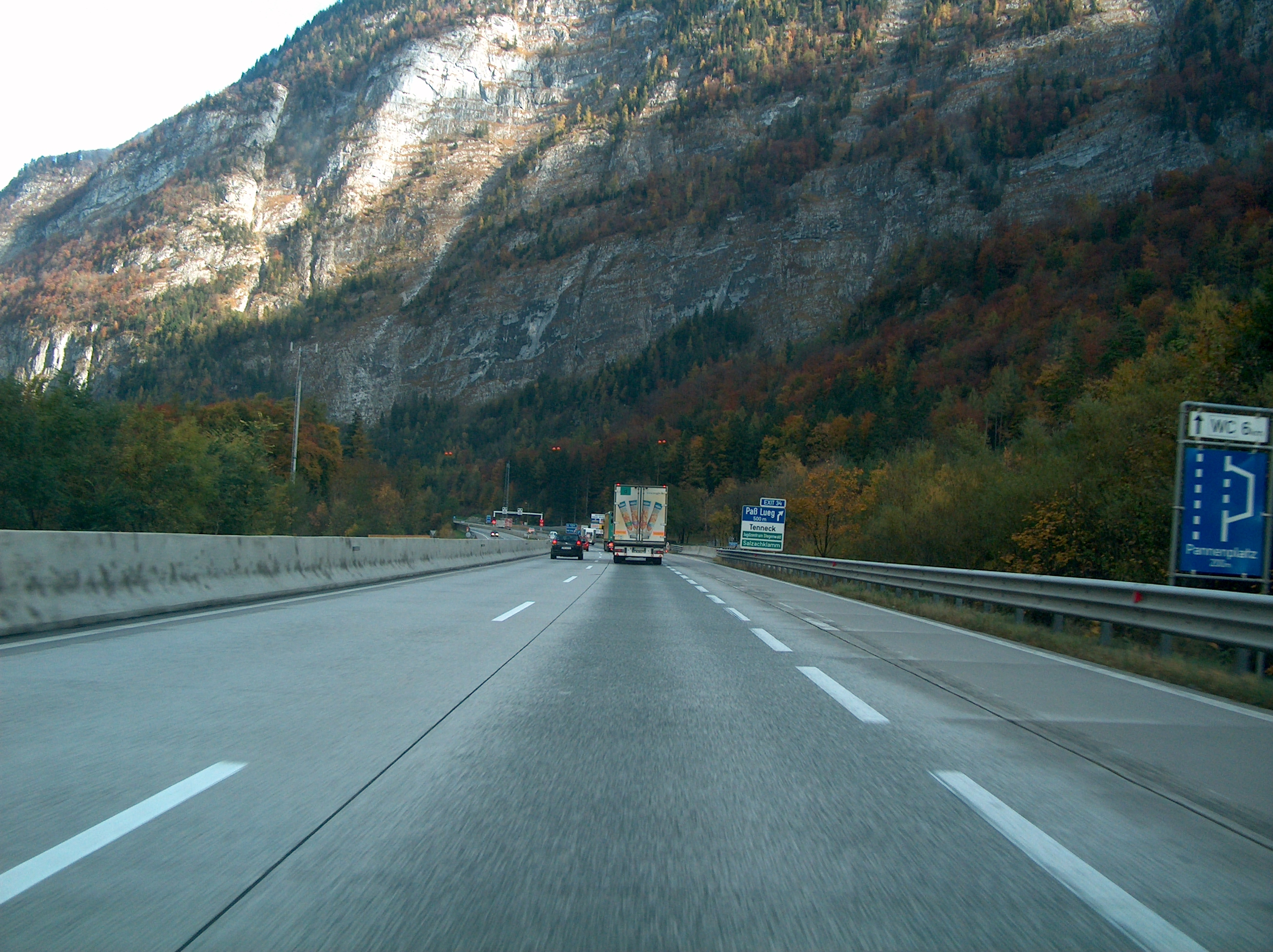 The A10 Tauern Autobahn, a motorway in Austria at the exit Pass Lueg.